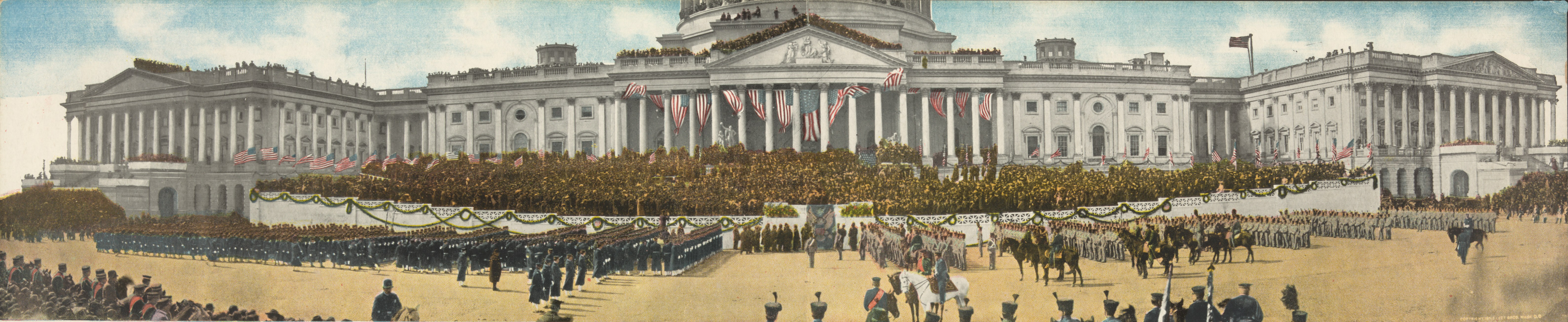 Second Inauguration of President Theodore Roosevelt, Washington, D.C. MEDIUM: 1 photomechanical print (postcard): halftone, color.